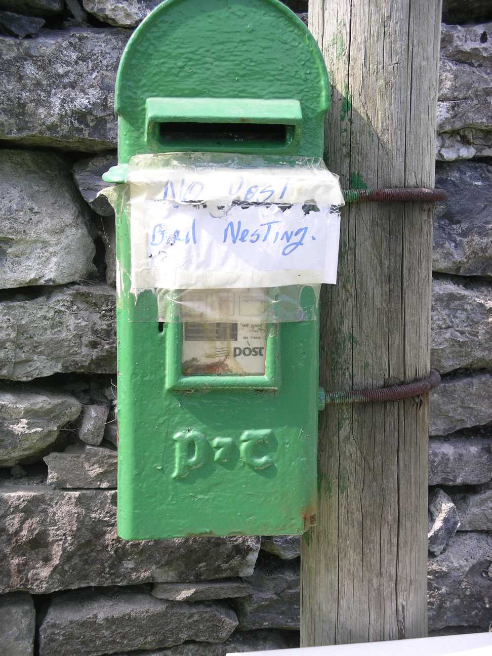 Post box in County Clare occupied by nesting birds